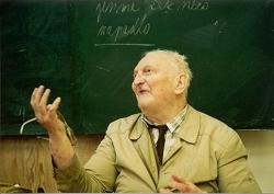 Philosopher Milan Machovec lecturing at the Faculty of Philosophy at the Charles University in Prague, 23 March 1999